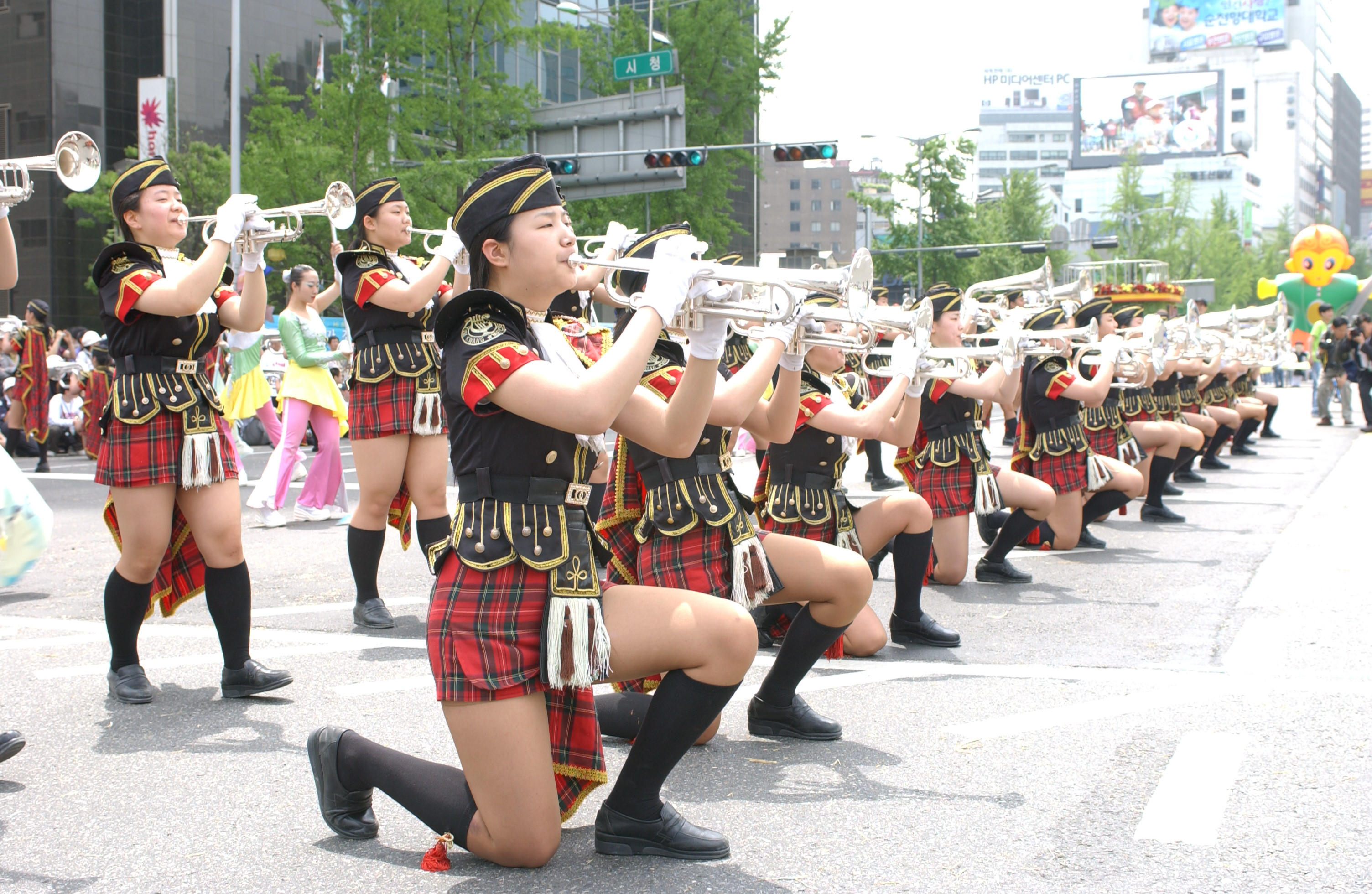 서울특별시 소방재난본부 소장 사진. Photos of Seoul Metropolitan Fire and Disaster Headquarters. Declaration of consent(sent to ). 이 파일은 크리에이티브 커먼즈 저작자표시-동일조건변경허락 4.0 국제 라이선스로 배포됩니다. 단 누구인지 구별 가능한 특정 인물이 사진에 포함되어 있을 경우 사용 전에 서울특별시 소방재난본부 및 해당 인물의 승인을 받으셔야합니다. 감사합니다. 최광모.